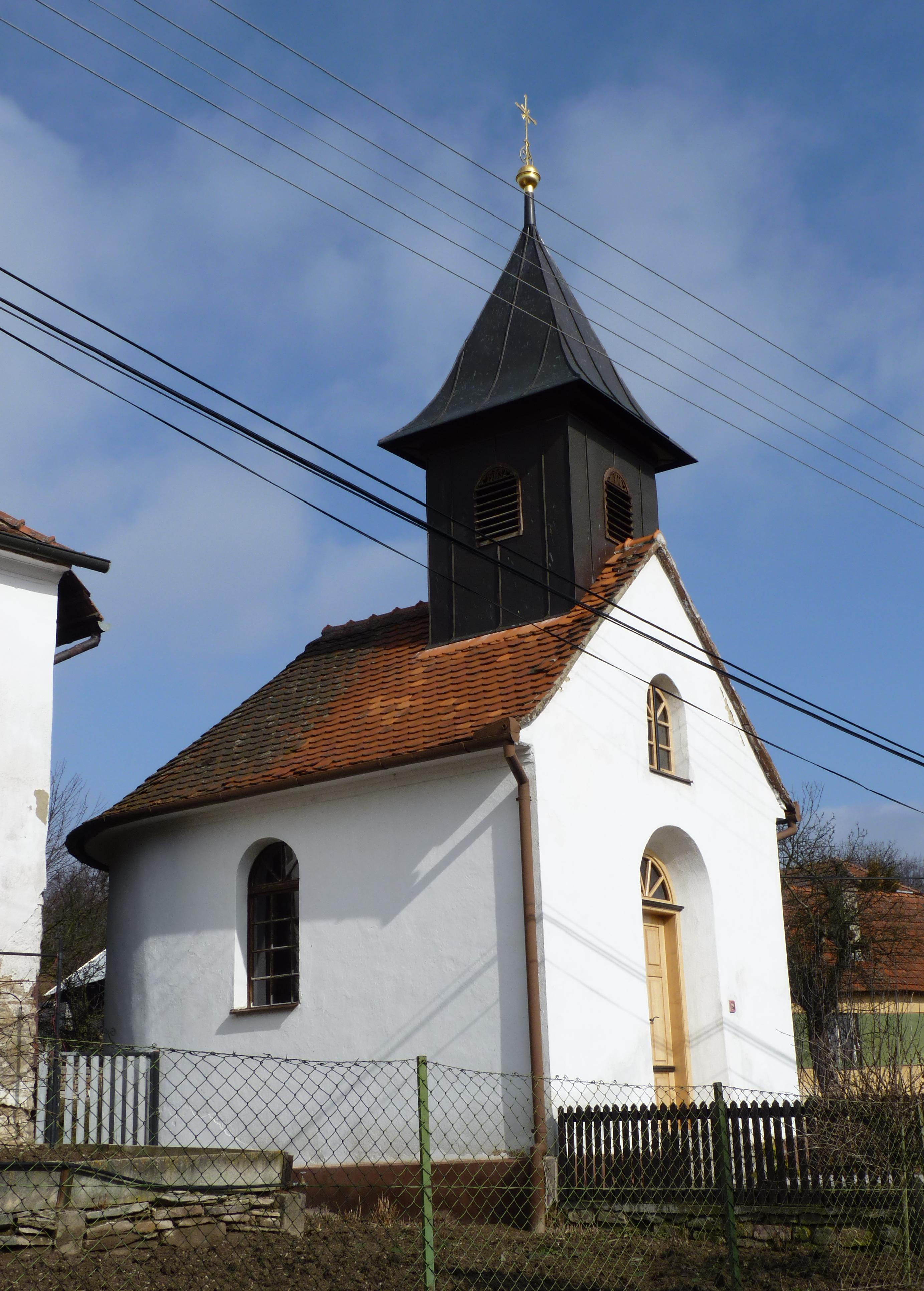 Veselí (Lomnice). Brno-Country District, South Moravian Region, Czech Republic